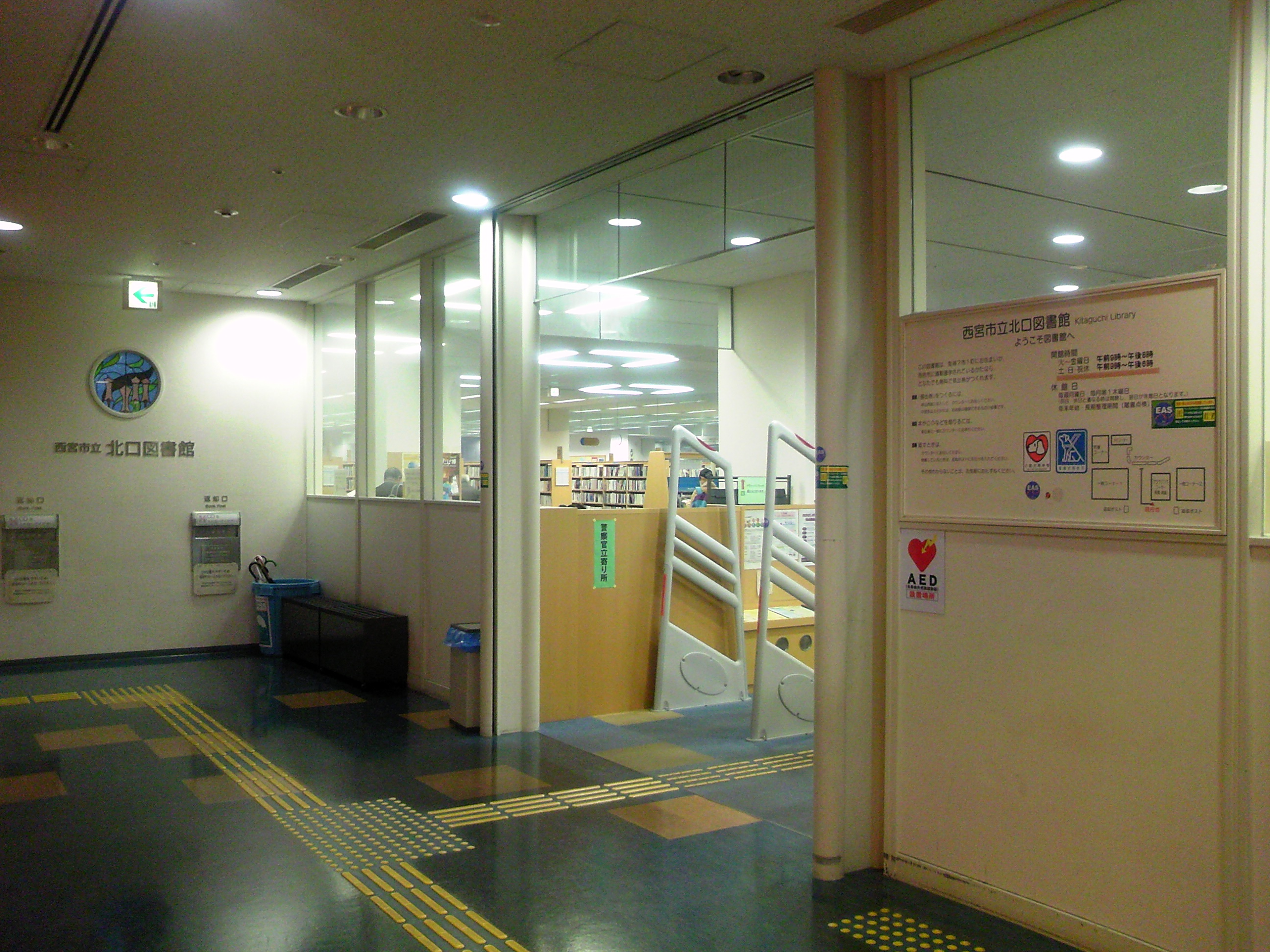 Nishinomiya city Kitaguchi library, Hyogo prefecture, Japan